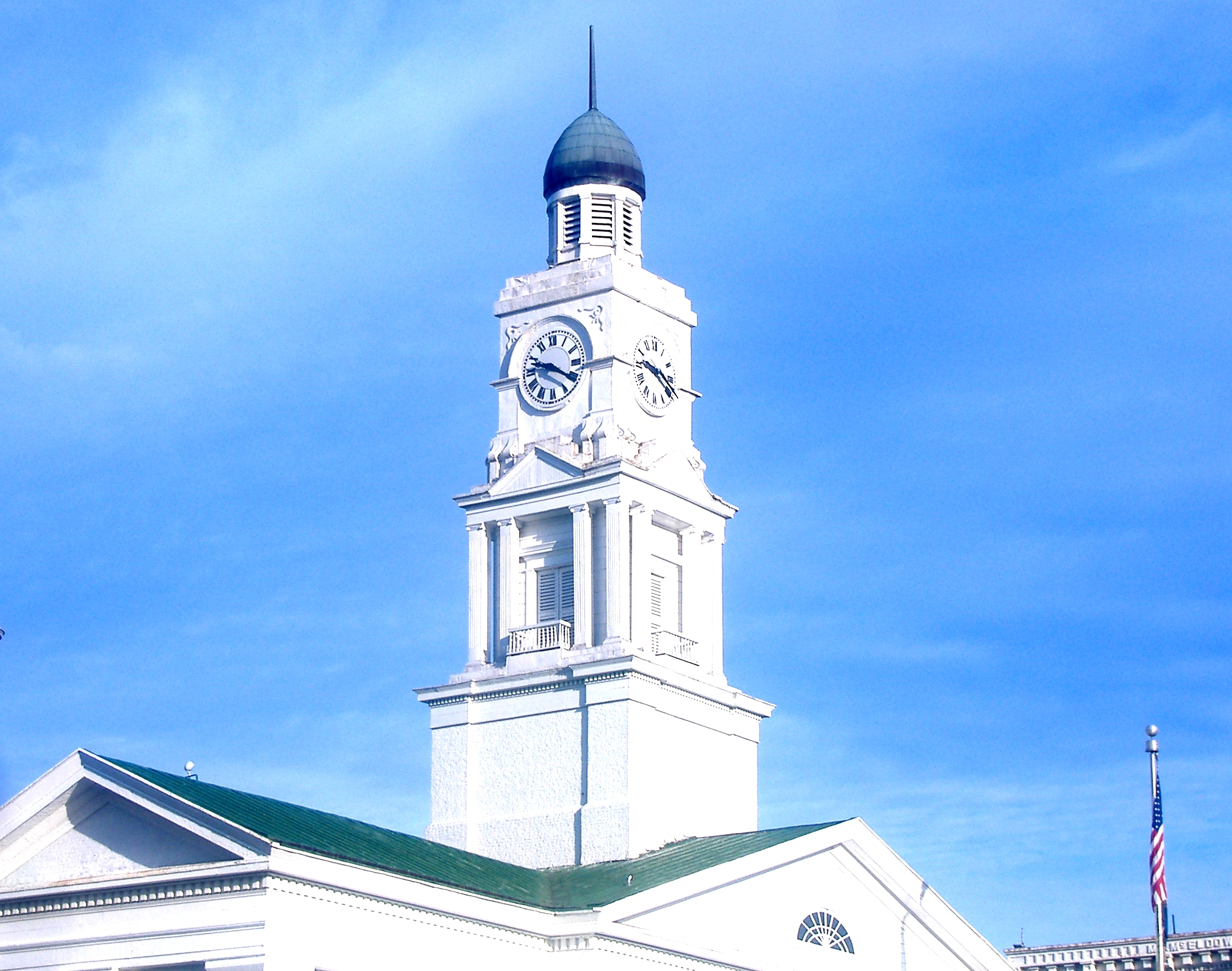 courthouse Object location